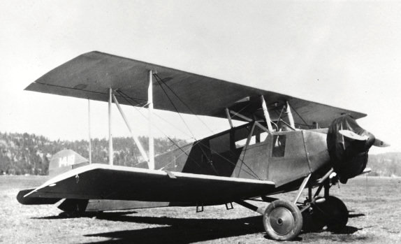 Stinson SB-1 Detroiter NC1419 msn 112